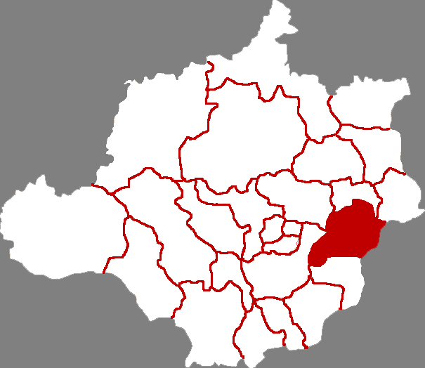 Location of Anxin county in Baoding City, China